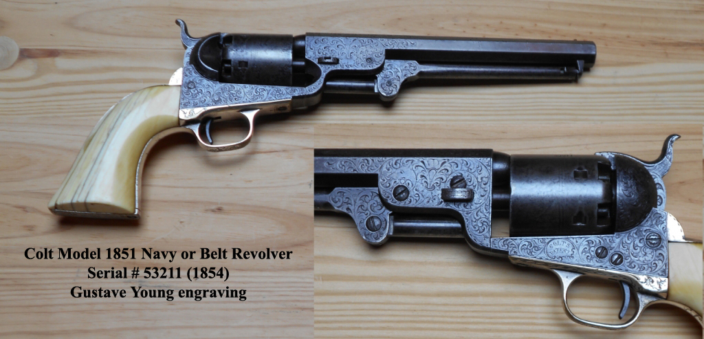 Colt Navy 51 engraved